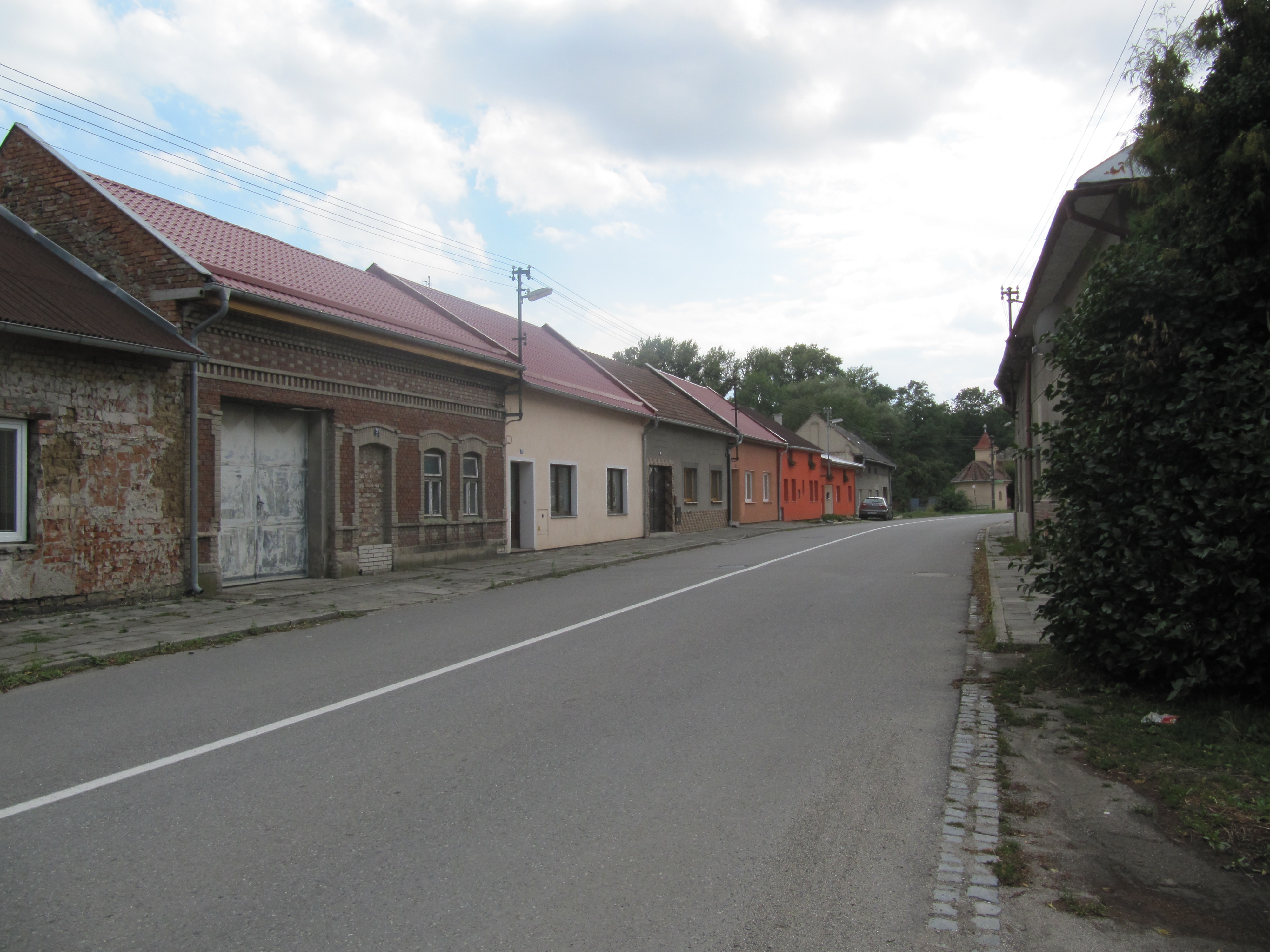 Tovačov, Přerov District, Czech Republic, part Annín.